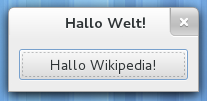 A simple Hello World program (german translation "Hallo Welt") using GTK